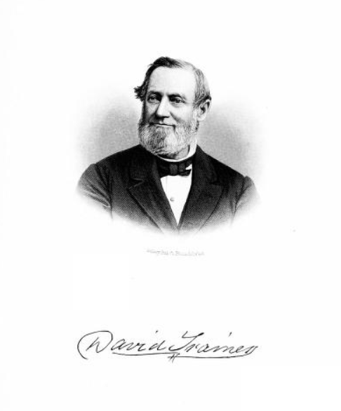 Image of David Trainer from Henry Graham Ashmead's "History of Delaware County, Pennsylvania" published 1884